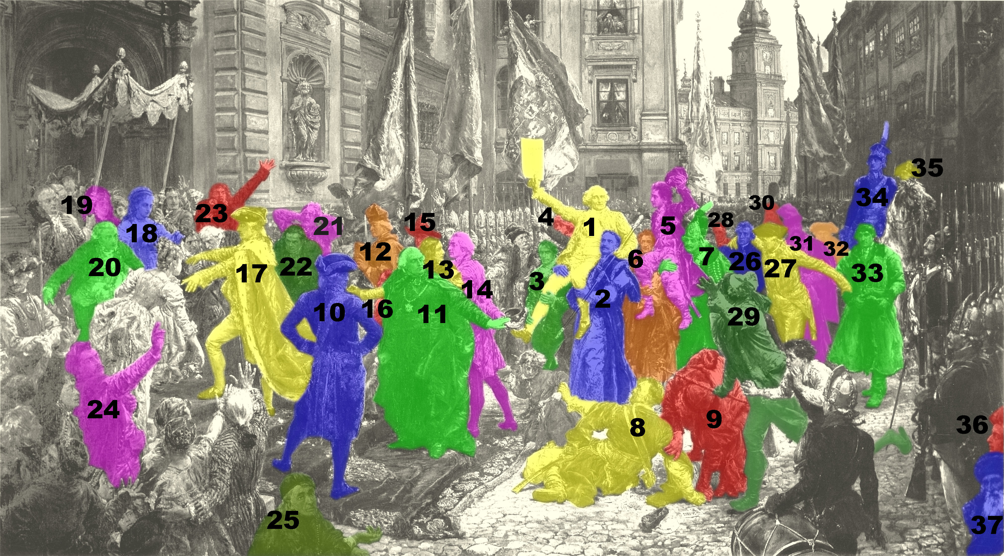 Guide to Constitution of May 3, 1791 by J. Matejko – principal figures highlighted